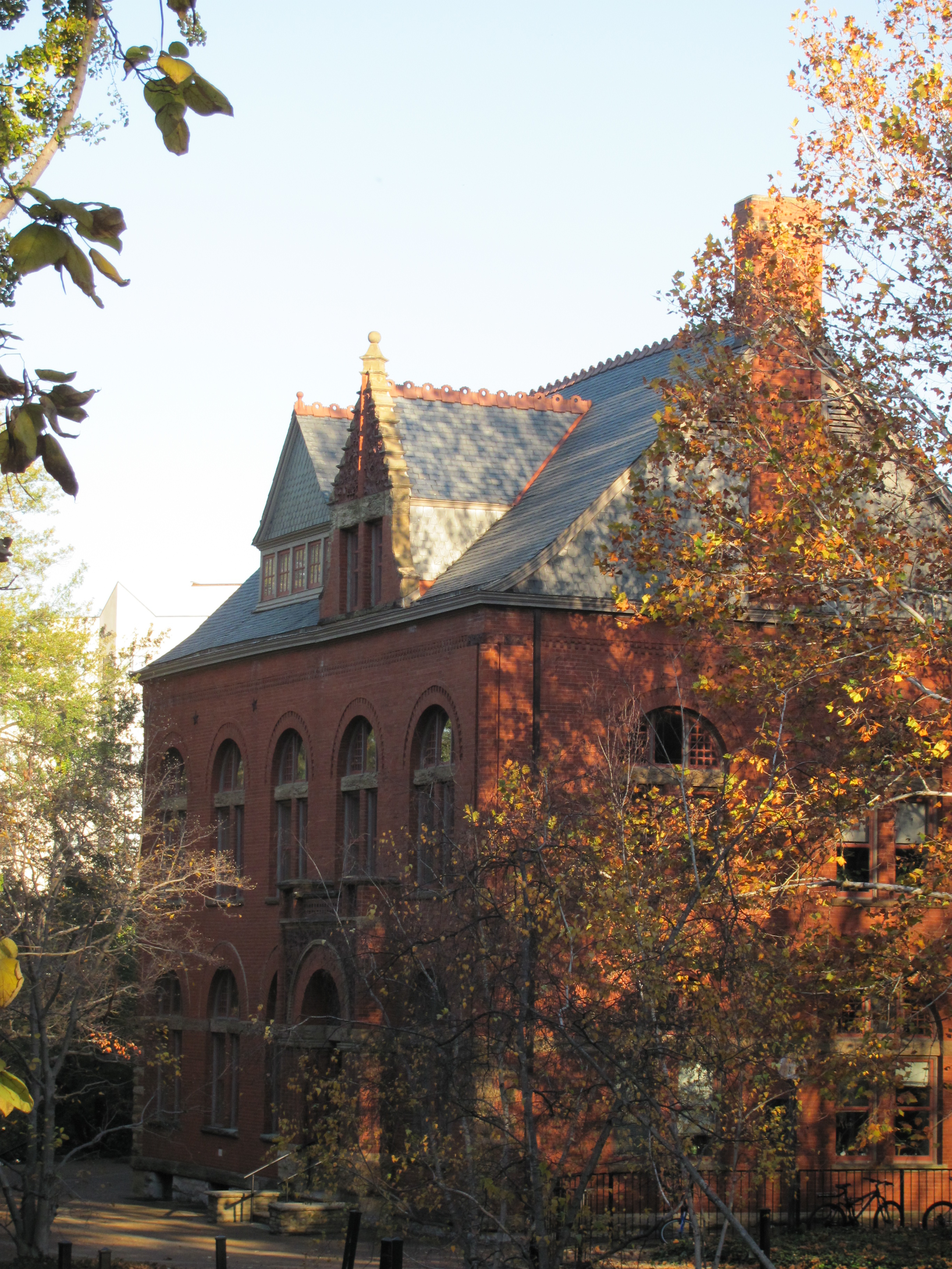 Old Mechanical